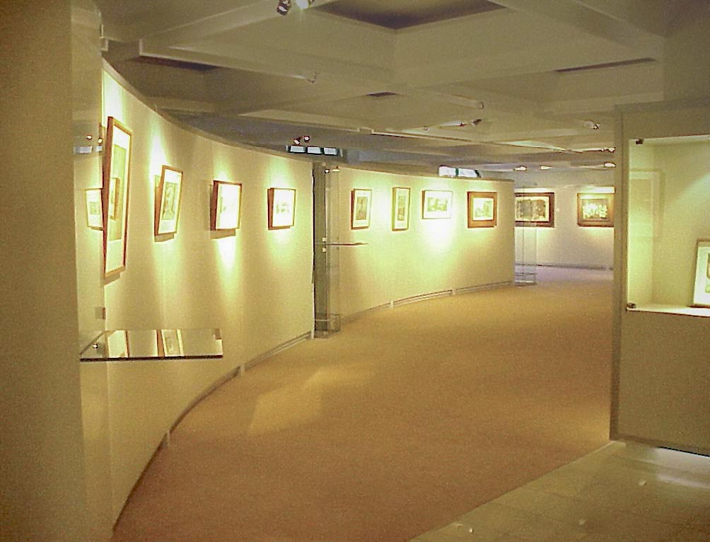 The Museum at DLSU-Manila, in the Don Enrique T. Yuchengco Hall.